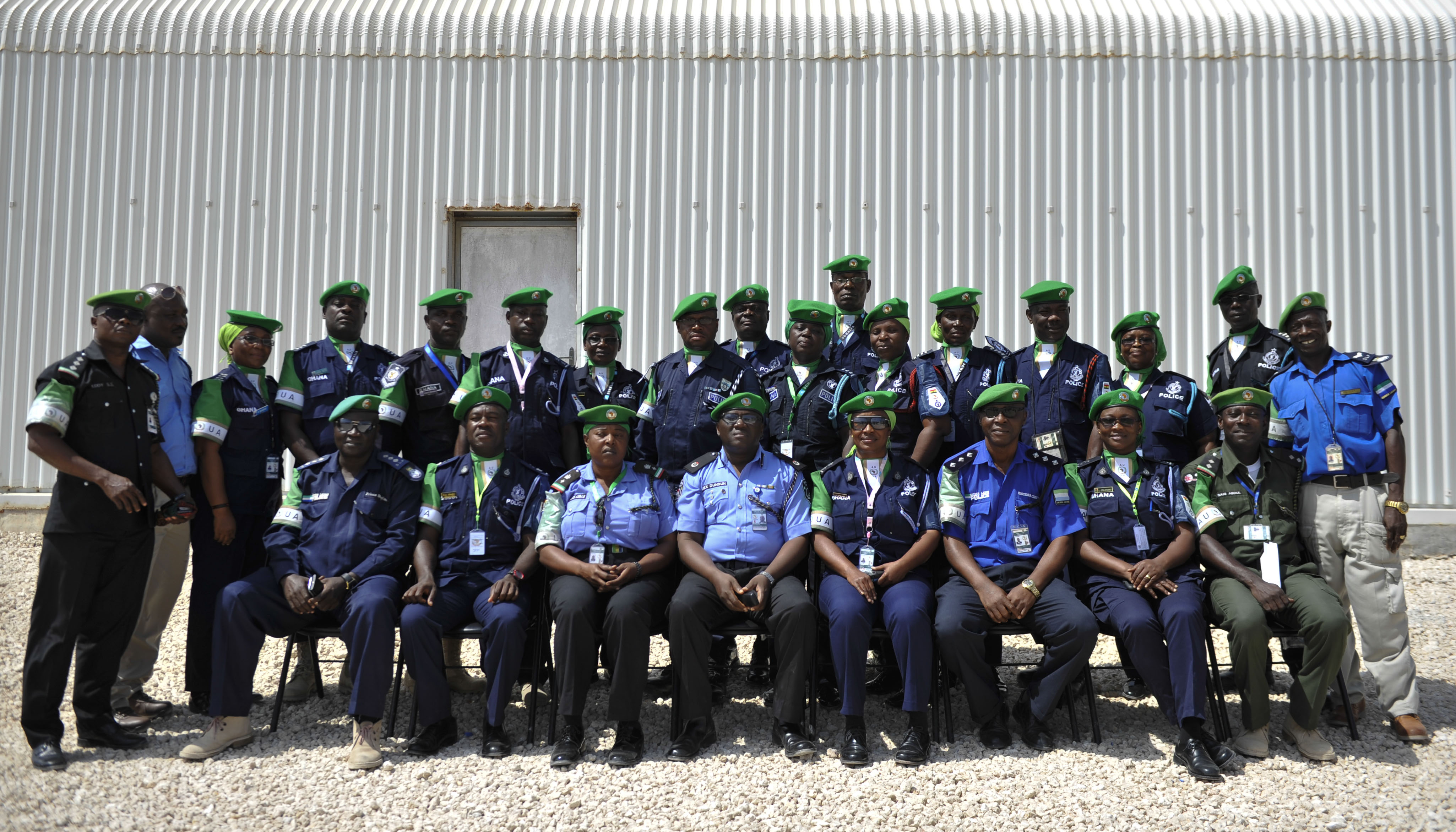 Group photo at the end of an induction training conducted by AMISOM Police component. A contigent of 17 police officers from Ghana are to be part of AMISOM police in Somalia. The training was held at the Joint Mission Training Center in Mogadishu, on December 29, 2014. AMISOM Photo / Ilyas Ahmed